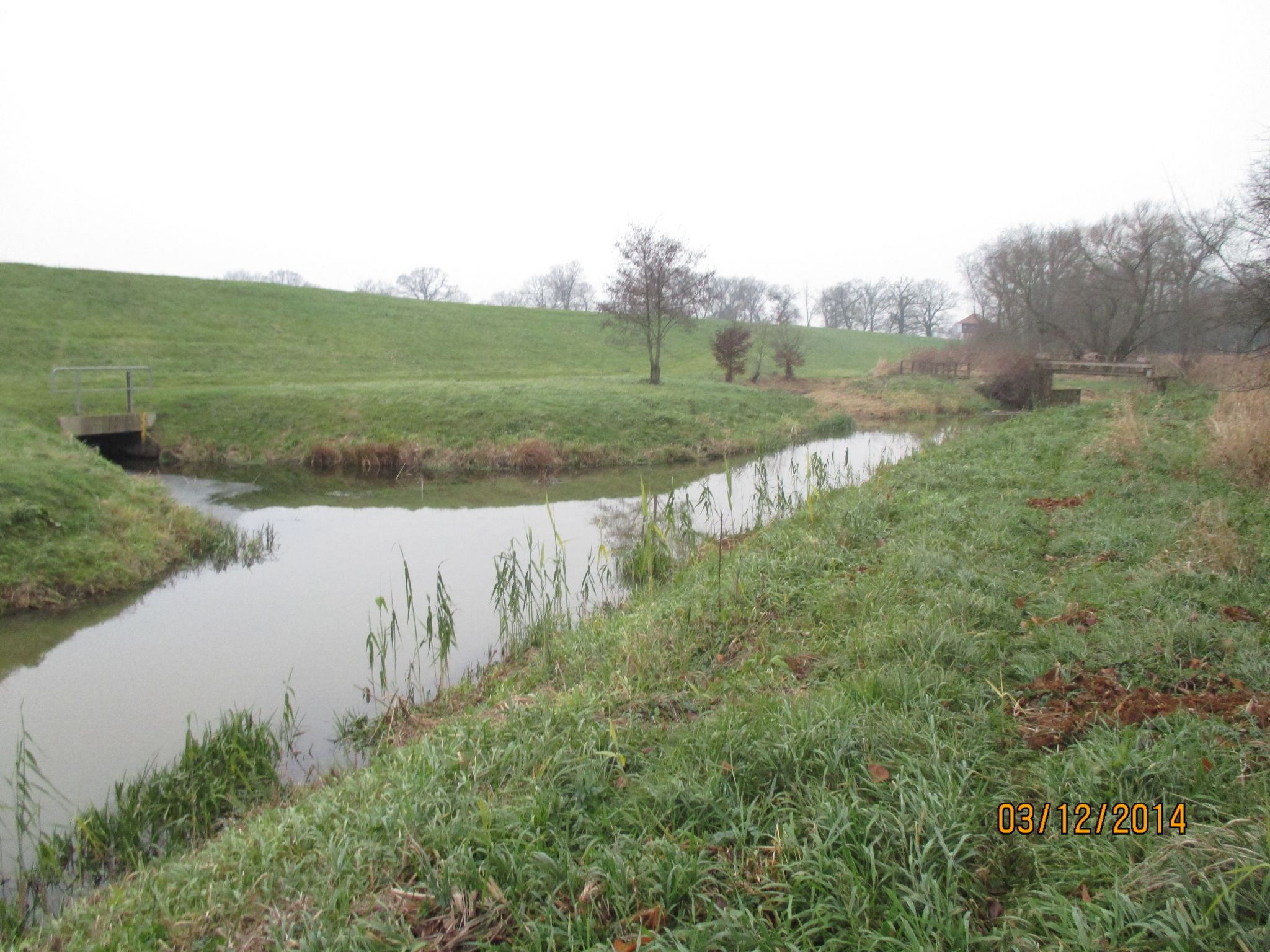 Fließgraben with weir before mouth in the Radehochsee, left - head over from the Schönitzer See and fish ladder